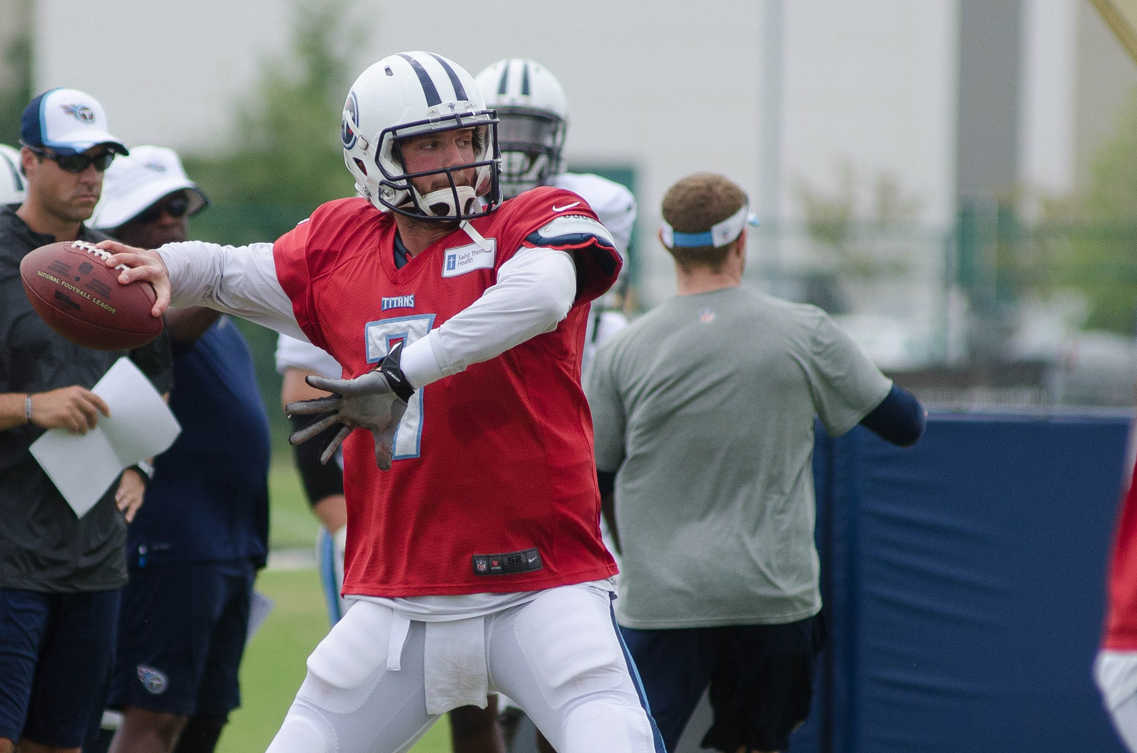 Zach Mettenberger at 2014 Titans training camp.